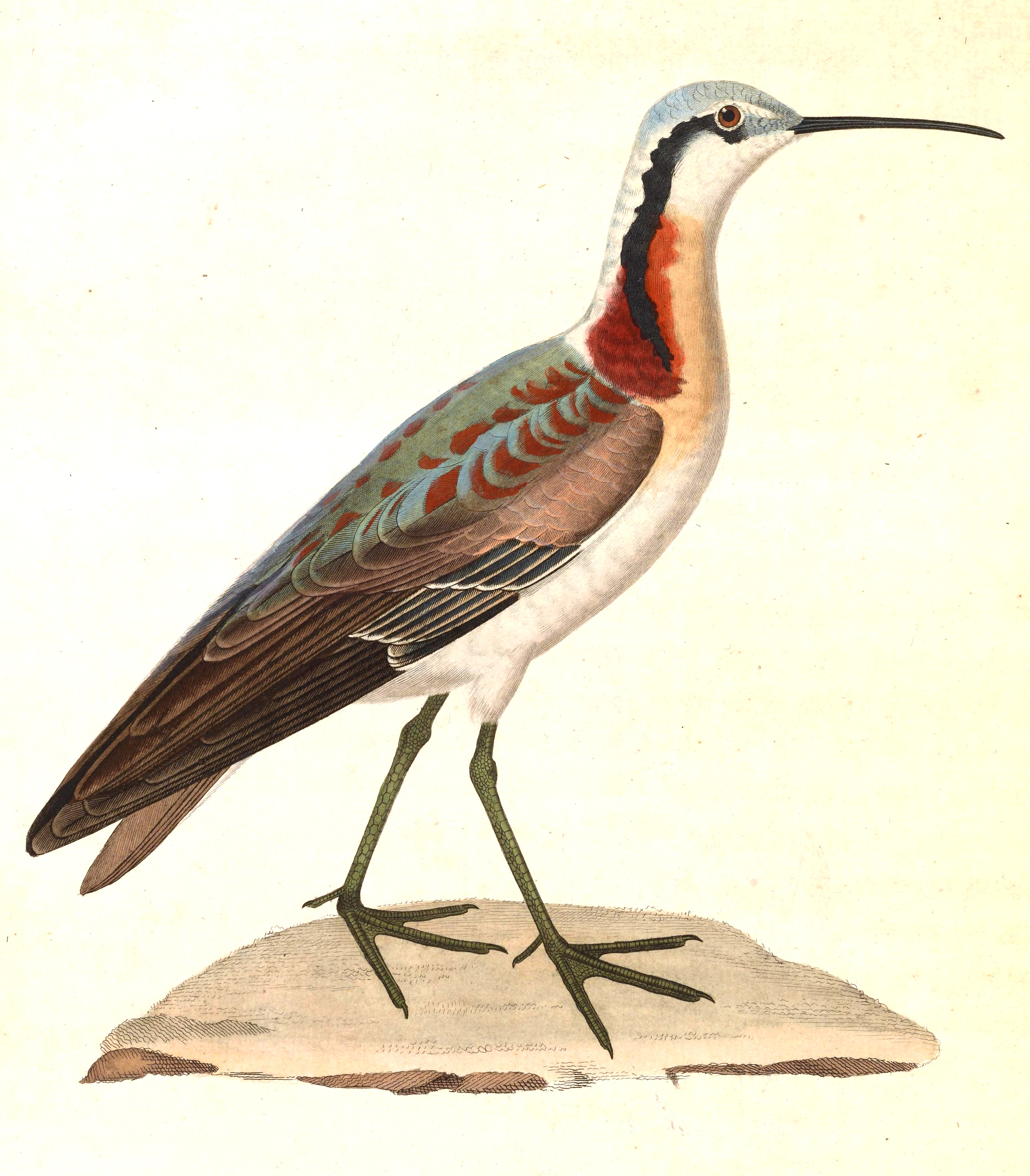 « Phalaropus fimbriatus » = Phalaropus tricolor (Wilson's Phalarope)